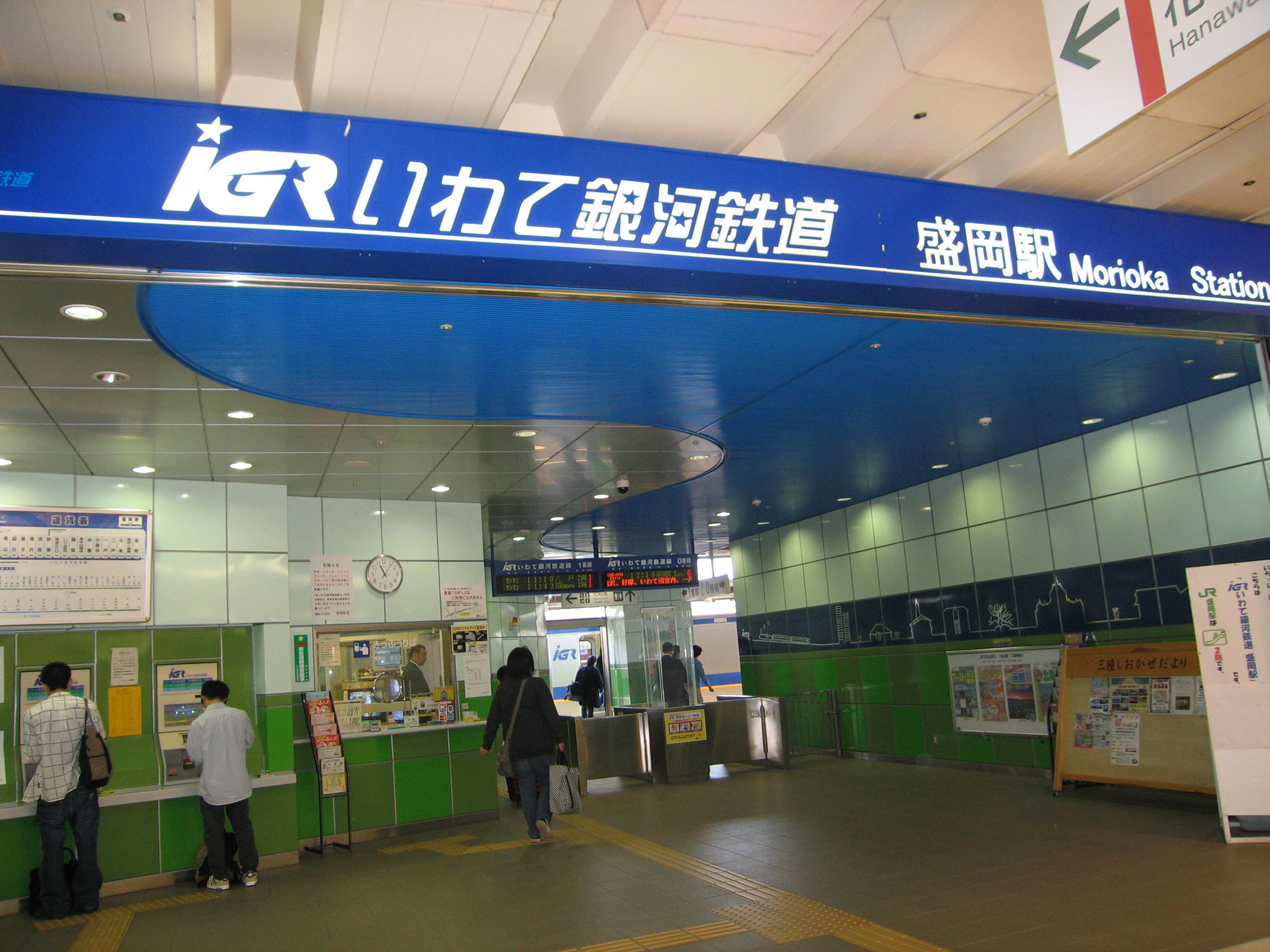 IGRいわて銀河鉄道・盛岡駅 Morioka Station of IGR Iwate Ginga Railways.